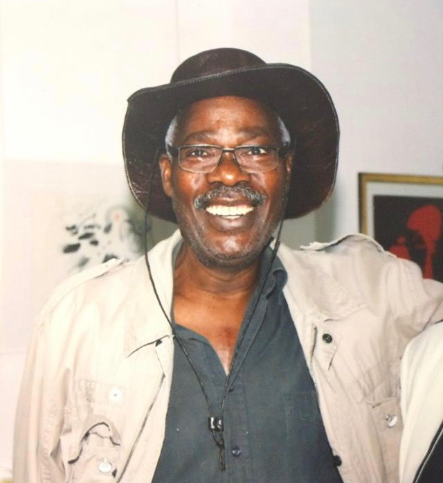 Profile Picture of EL Loko for Wikipedia use